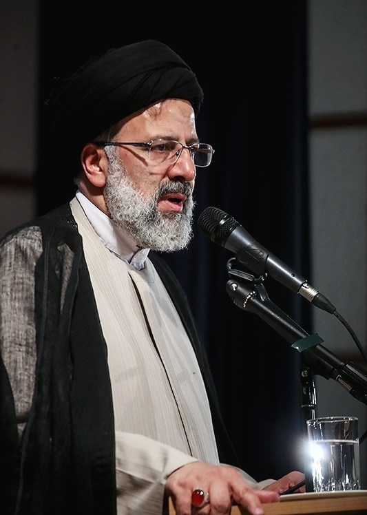 Ebrahim Raisi registering for the 2017 Iranian presidential election candidacy